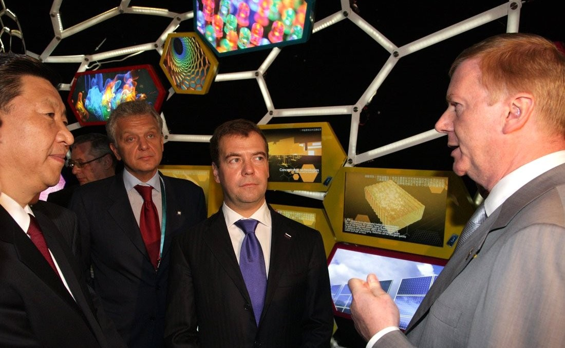 Visit to the Russian Pavilion at the 2010 World Expo. From left: Vice President of China Xi Jinping, Industry and Trade Minister Viktor Khristenko and CEO of the Russian Corporation of Nanotechnologies (RUSNANO) Anatoly Chubais.